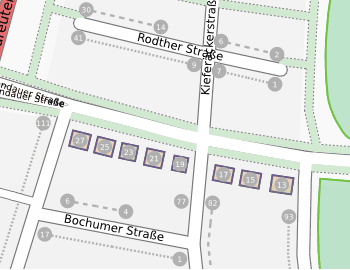 Mapping housenumbers in OpenStreetMap